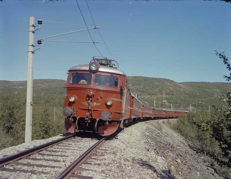 Norwegian State Railways El 11 hauling a train of B3 carriages on the Bergen Line